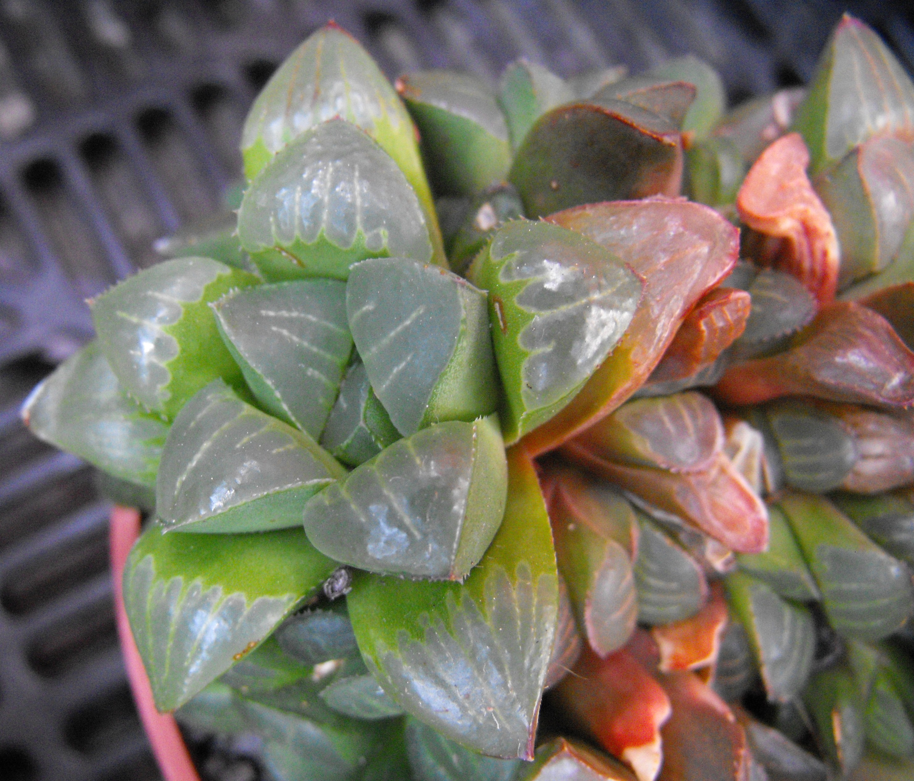 Haworthia mirabilis var mundula at the San Diego Home & Garden Show, California, USA. Misidentified by exhibitor's sign.